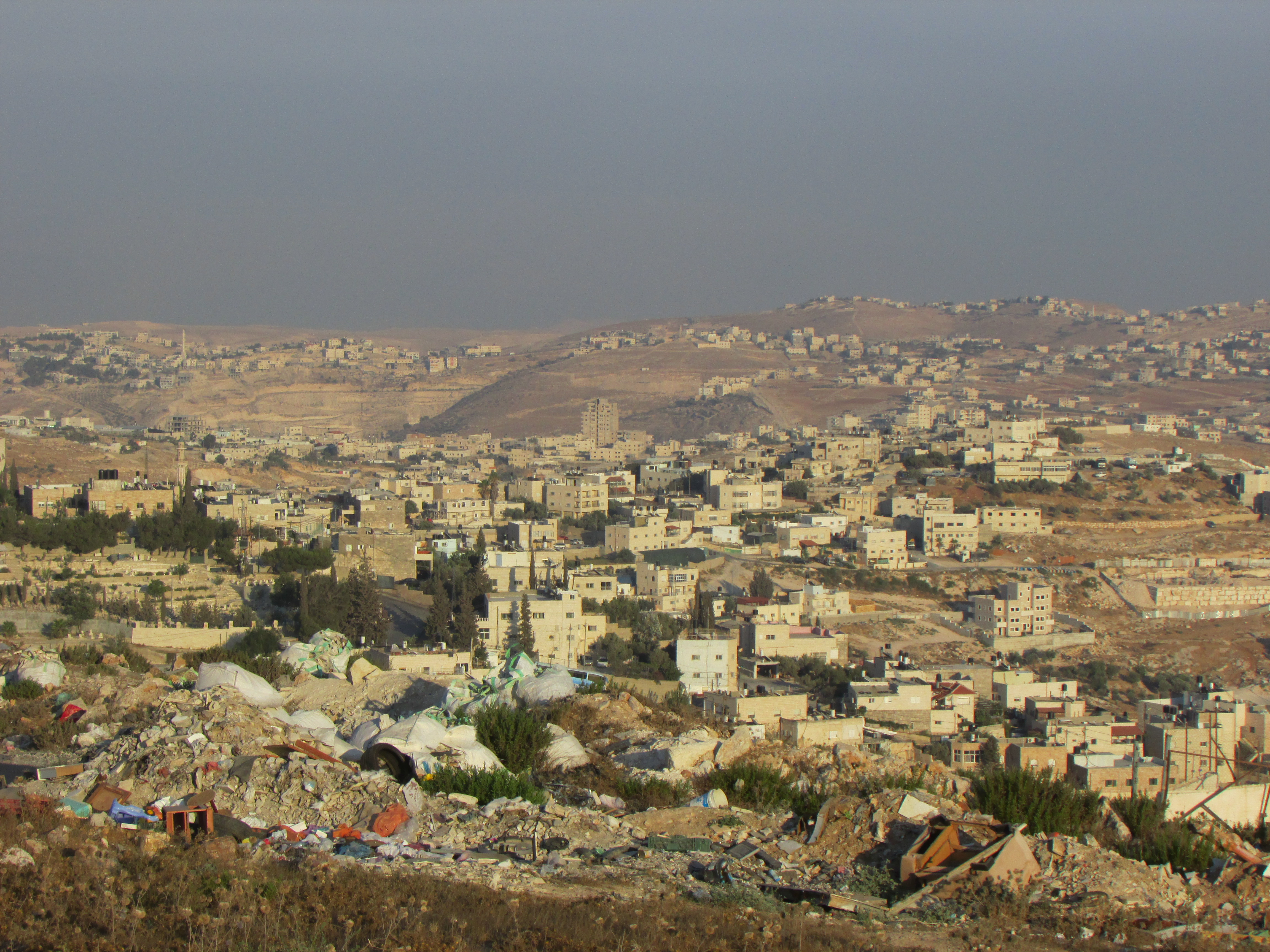 The closer houses are Sur baher. The farther houses on the mountain, on the left are the edges of al-Ubeidiya. on the mountain on the right is believed to be Wadi al-Arayis and Juhdum.